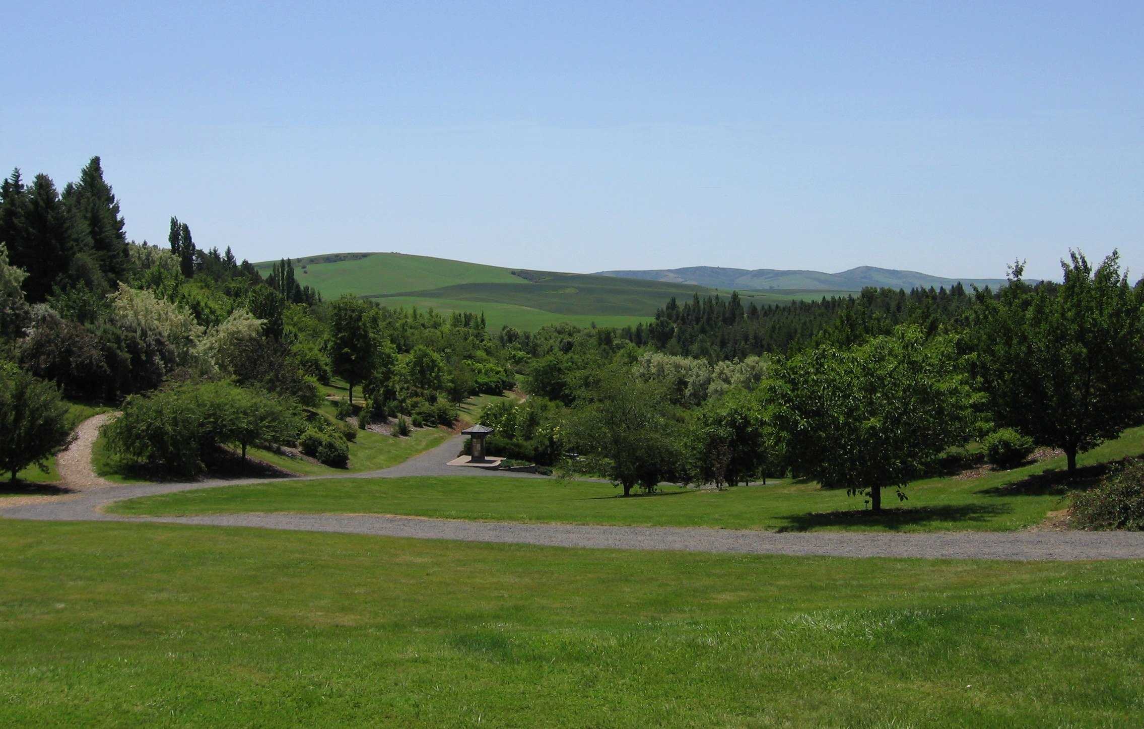 Photo of the north entrance to the University of Idaho Arboretum and Botanical Garden